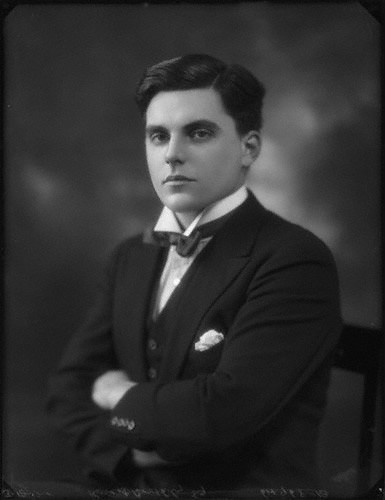 Portrait of Robert Boothby